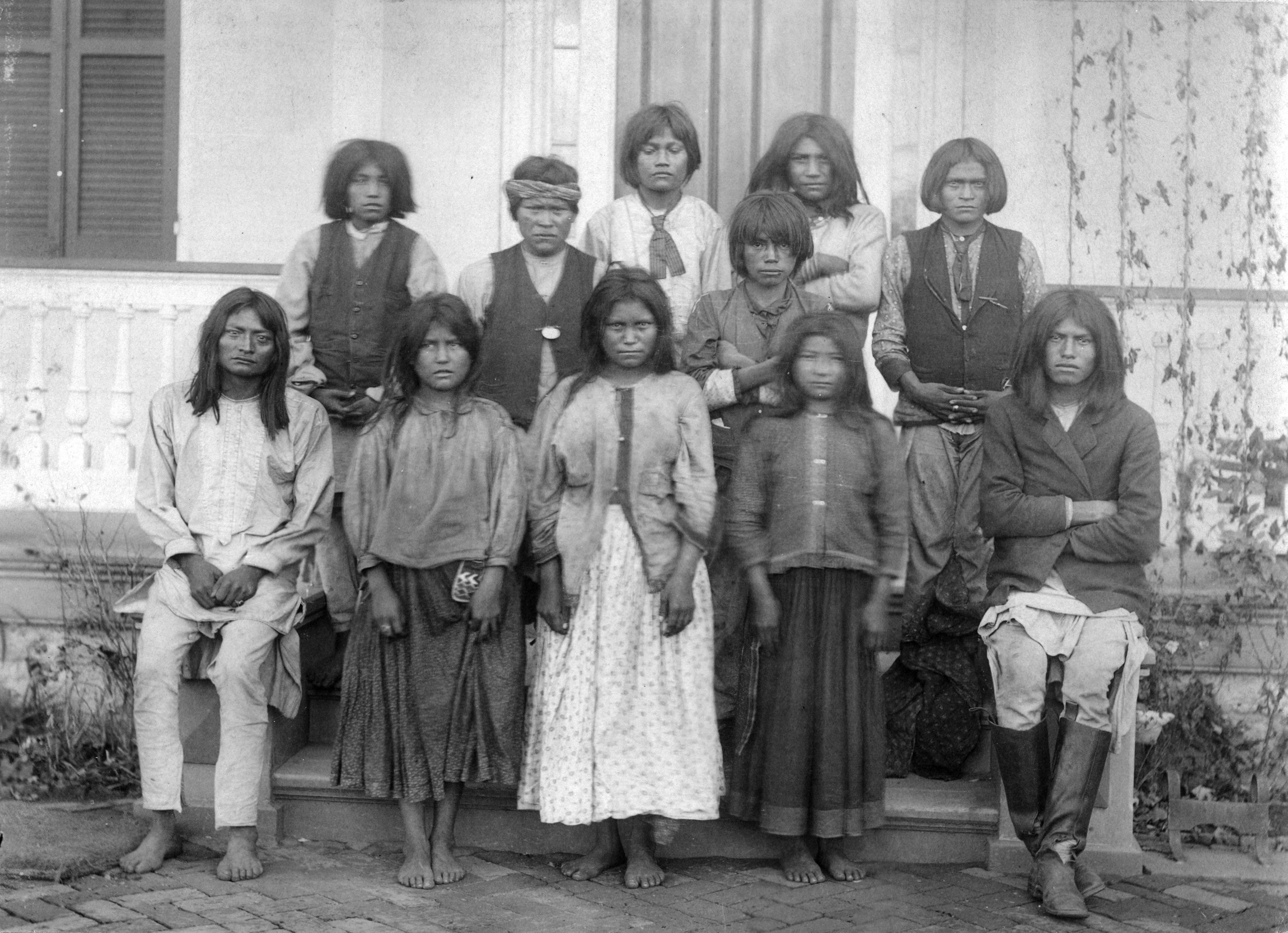 Hugh Chee, Bishop Eatennah, Ernest Hogee, Humphrey Escharzay, Samson Noran, Basil Ekarden, Clement Seanilzay, Beatrice Kiahtel, Janette Pahgostatum, Margaret Y. Nadasthilah, Fred'k Eskelsejah, Native American (Chiricahua Apache) boys and girls pose outdoors at the Carlisle Indian School, Carlisle, Pennsylvania after their arrival from Fort Marion, Florida.